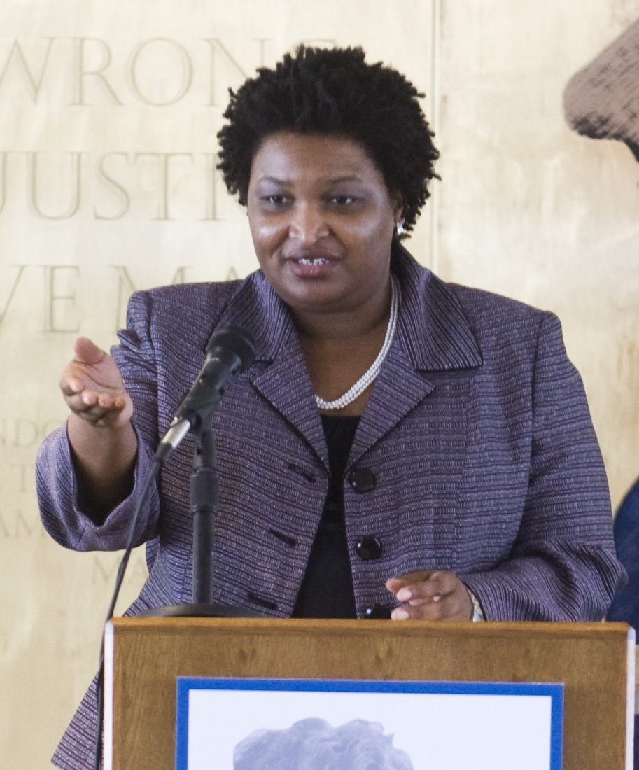 Georgia State Representative Stacey Abrams (MPAff '98)